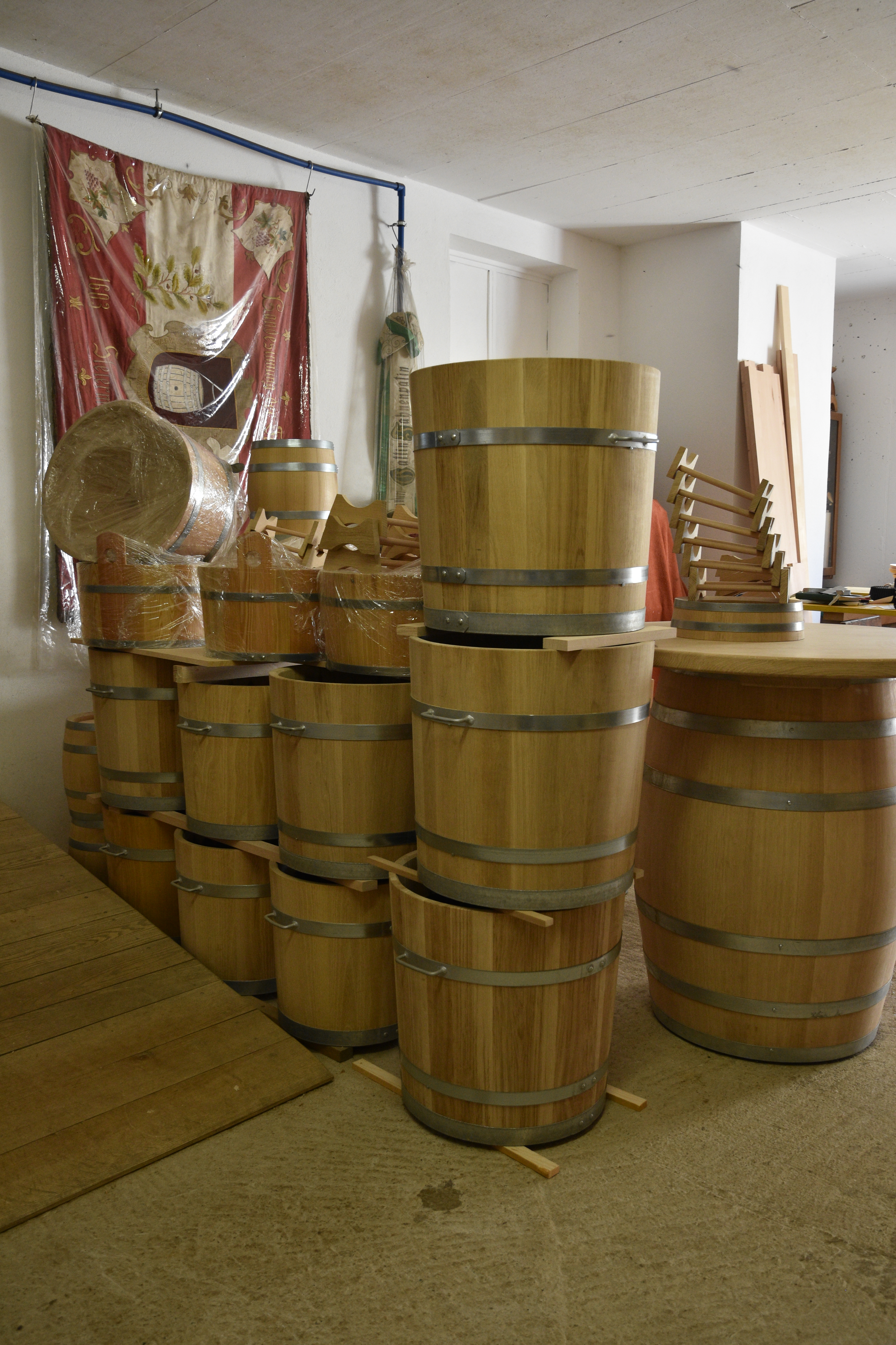 Küfer Fassbinder Gnas Stacks of staves Fassdaube Thien